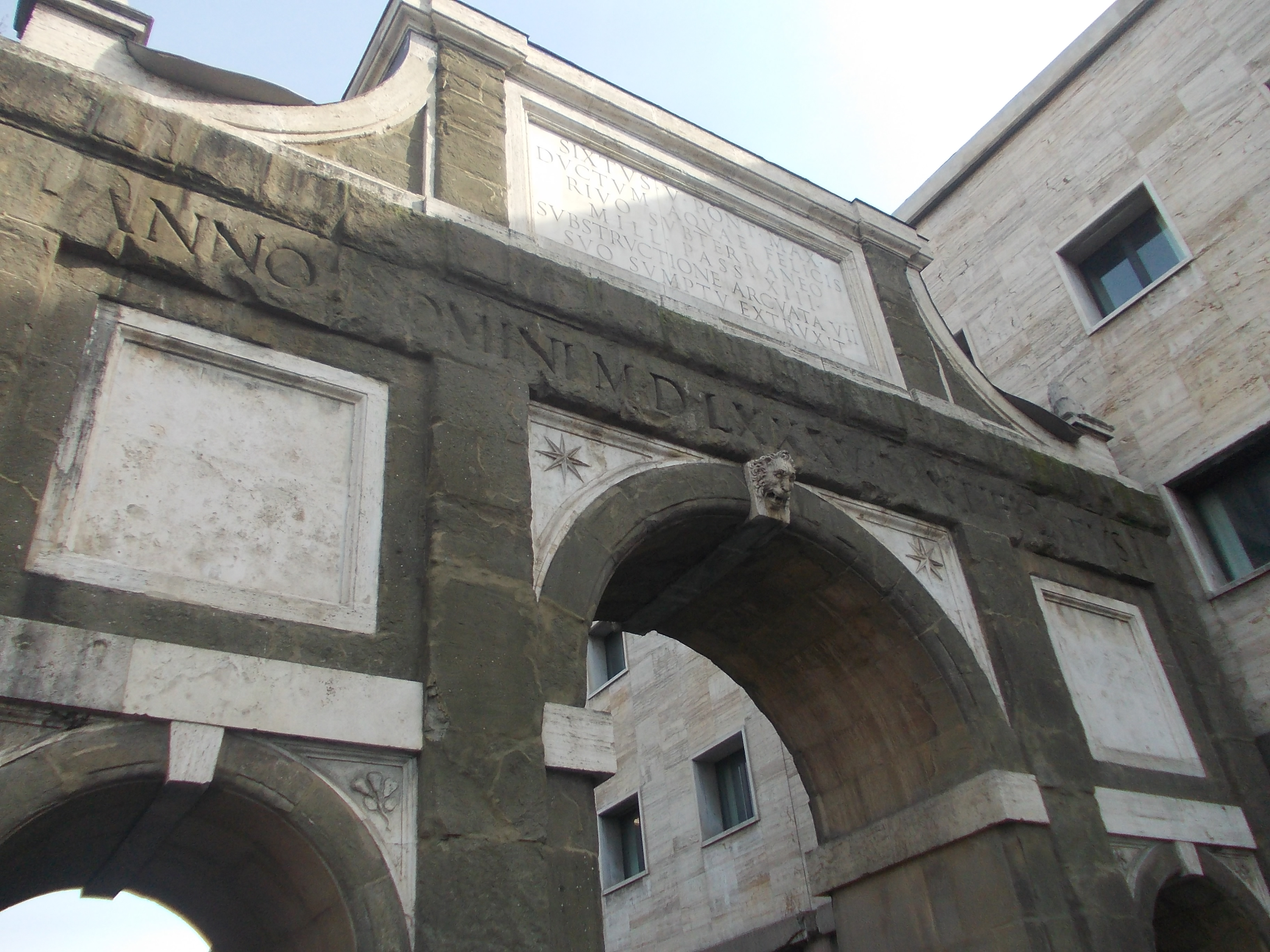 Arch of Sisto the fifth in Rome